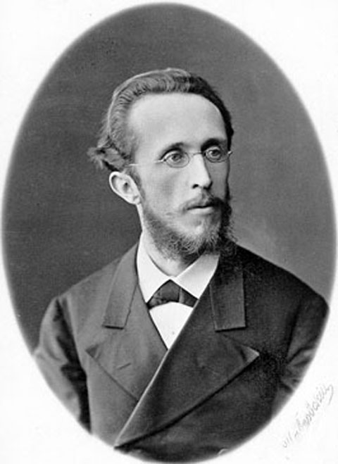 Borgman, Ivan Ivanovich